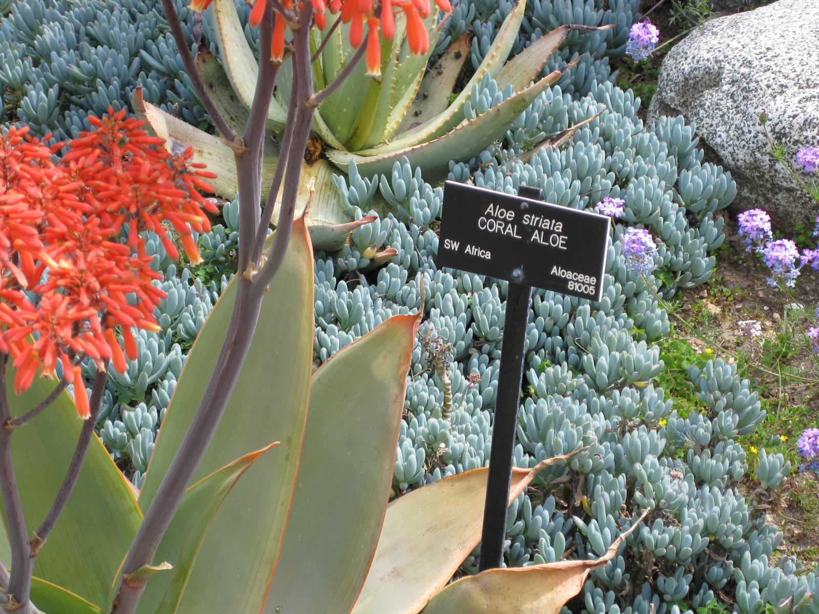 Photographed at Huntington Gardens (Los Angeles) in April